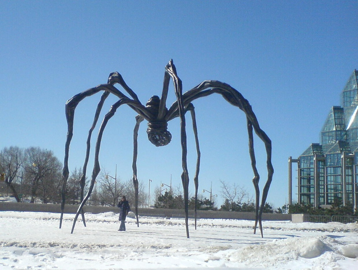 Mamam (1999), by Louise Bourgeois, outside the National Gallery of Canada, Ottawa.